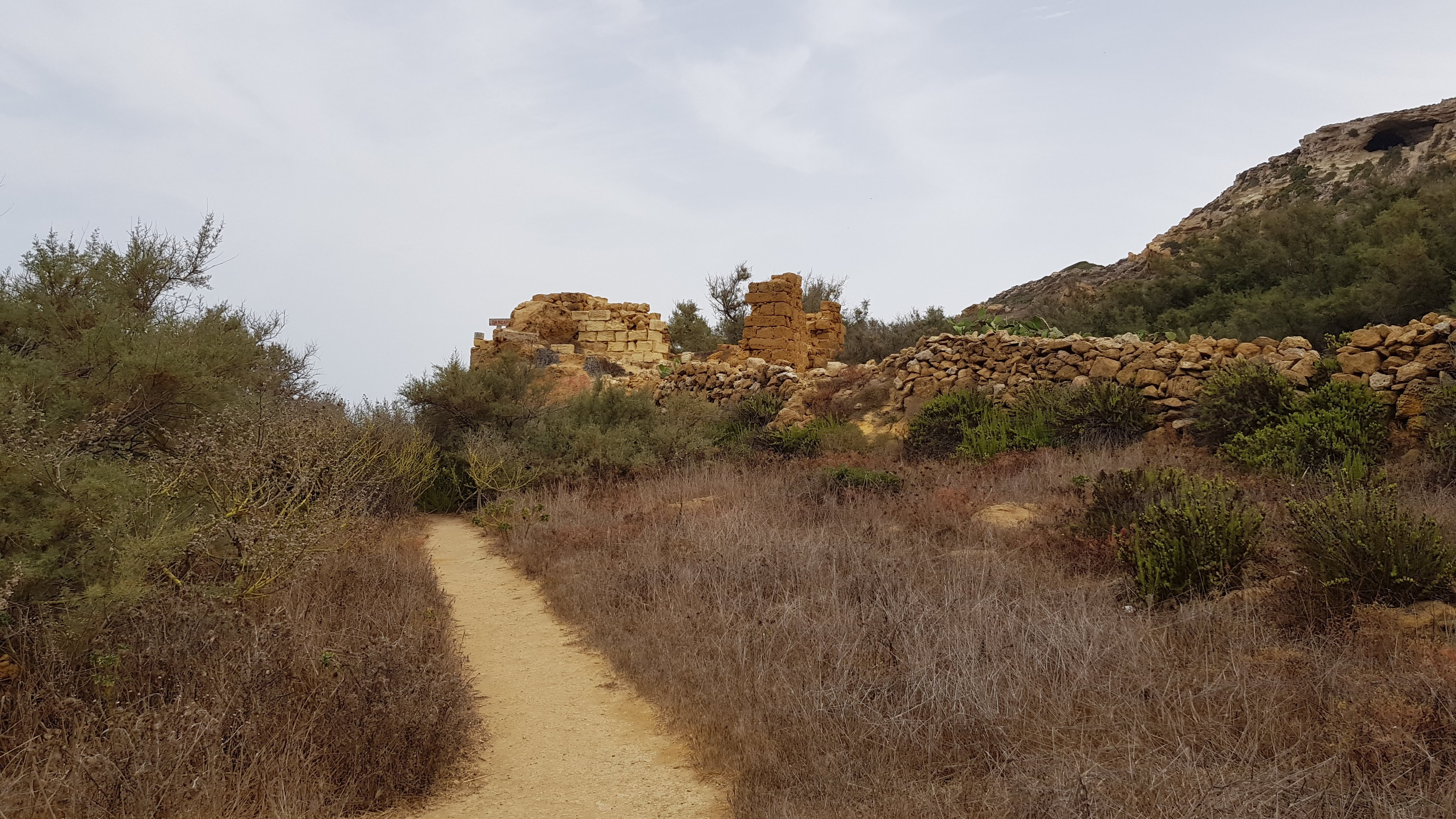 Ruins of Ramla Right Battery in Ramla Bay, Gozo This media is about Maltese cultural property with inventory number 1415.